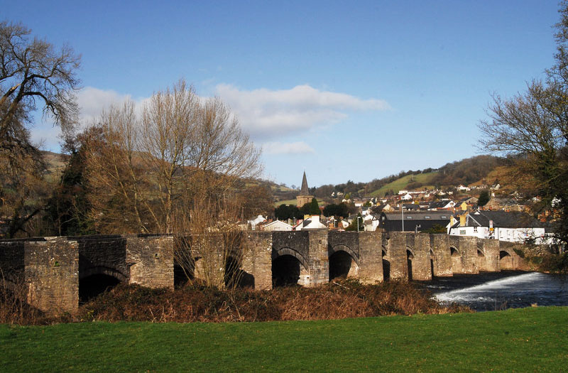 Crickhowell bridge over the River Usk viewed from the southwest, with Crickhowell town (Powys, Wales) visible behind